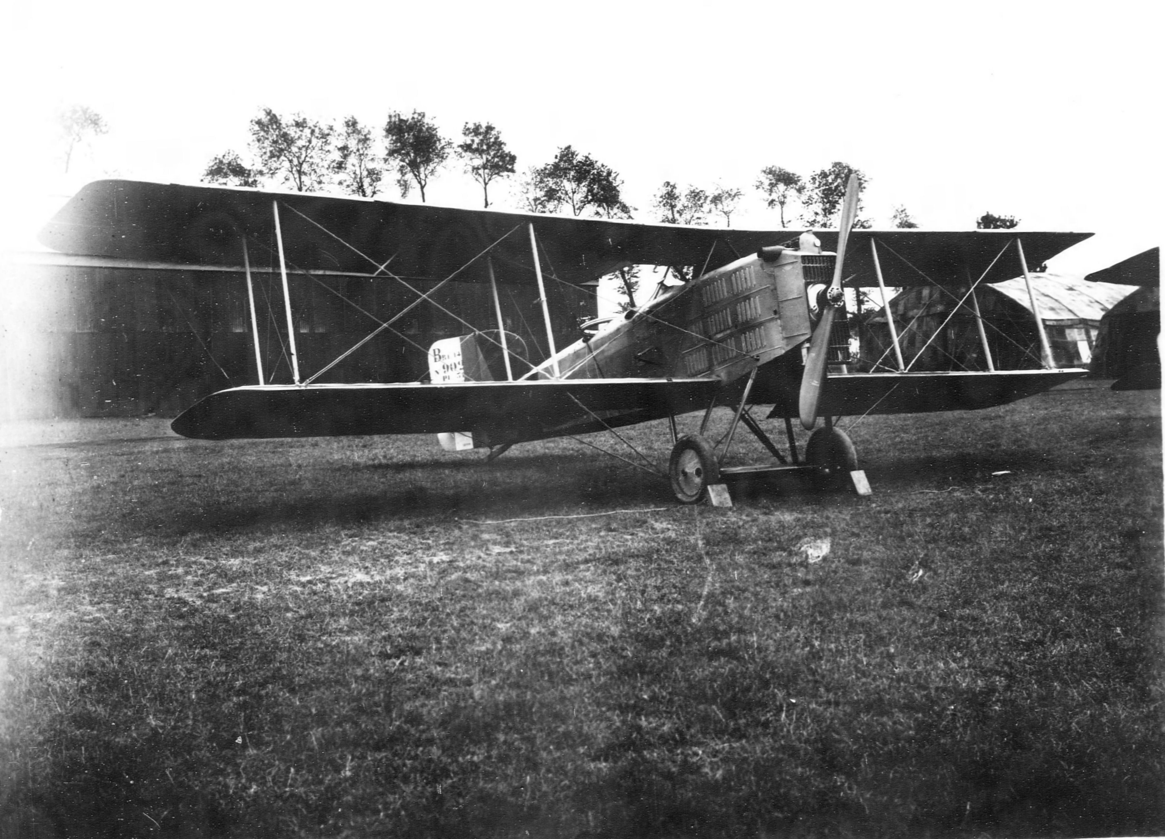 Breguet 14 at Air Service Production Center No. 2, Romorantin Aerodrome, France, 1918